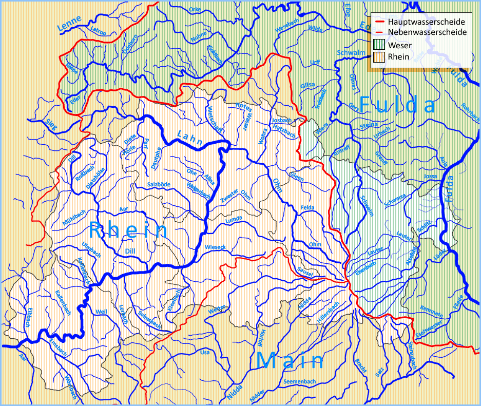 The map shows the Water divide of the river Rhine and Weser in Hesse.